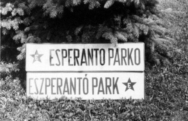 Esperanto Park Miskolctapolca